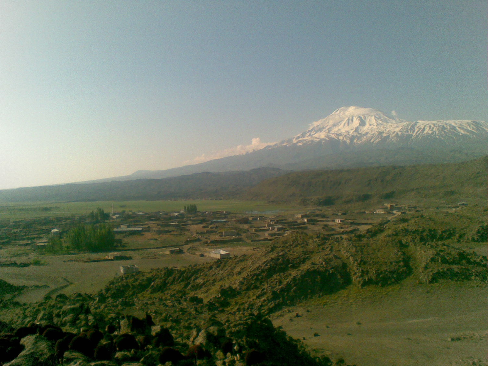 Mount Ararat & Bulakbaşı village, Karakoyunlu district, Iğdır Province Kurdî: Dîmena Kanil Kewangê